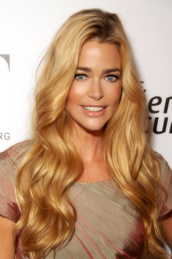 Denise Richards attending "Susan G. Komen's 8th Annual Fashion For The Cure" event - Hollywood, CA on Sept. 24, 2009 - Photo by Glenn Francis of